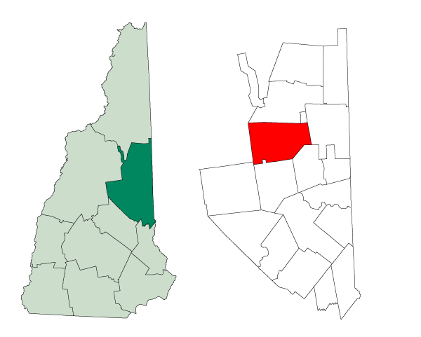 Created from Boundary/Border Outline Files of the Libre Map Project which held a BY-SA creative commons license. Data origionally from 2000 US Census boundary data.